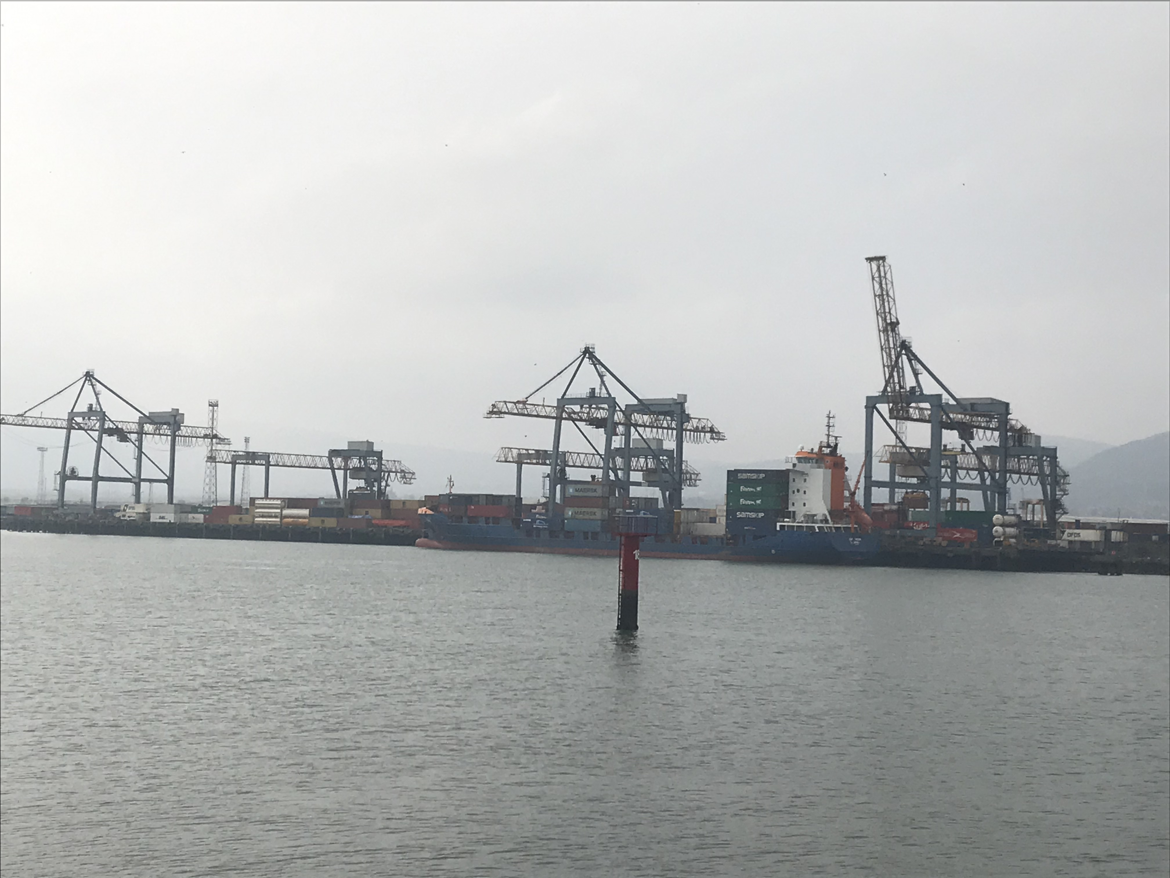 Looking towards Belfast Container Terminal, from the Victoria Channel approach.